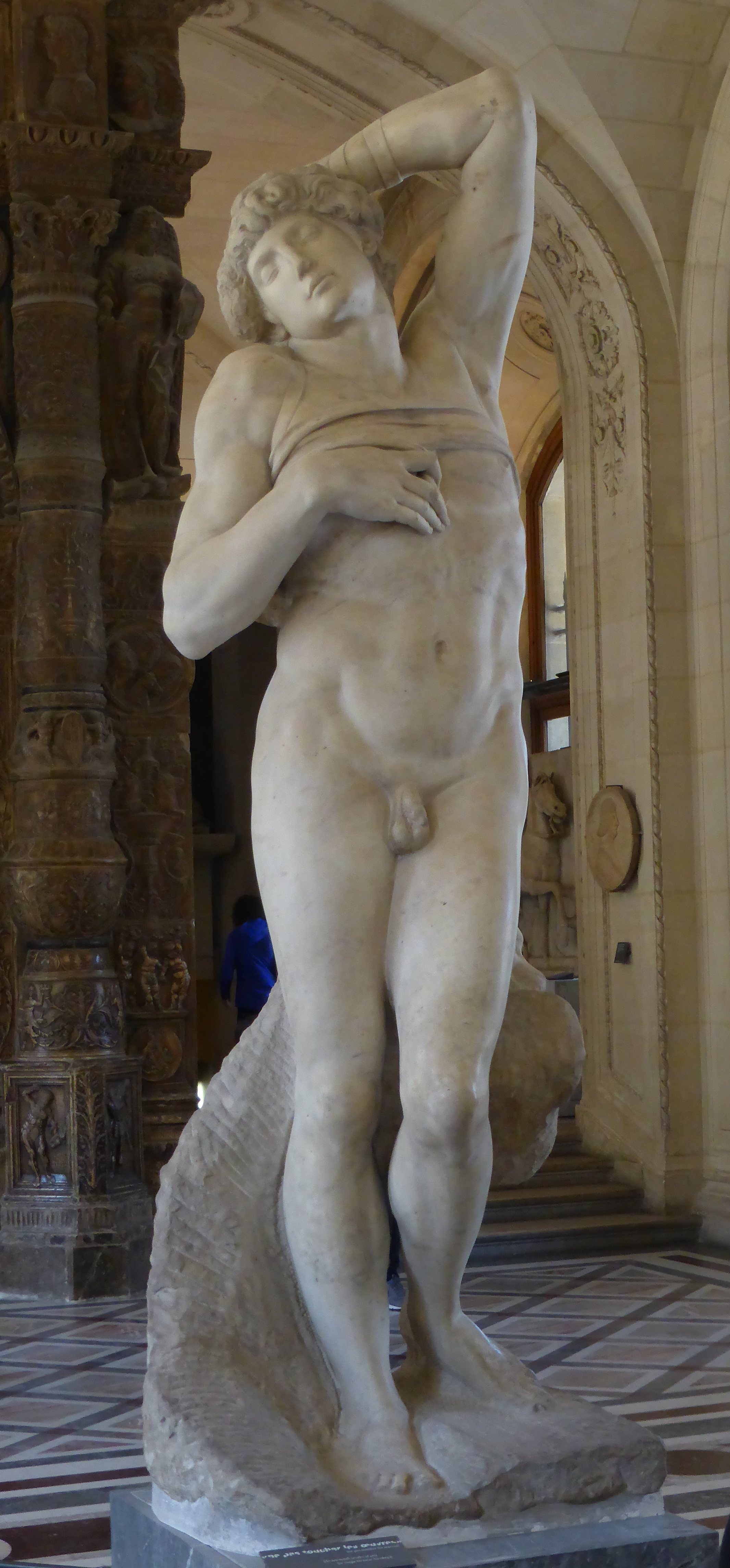 Michelangelo: Dying Slave for the Tomb of Julius II., c. 1513-15, Paris, Louvre